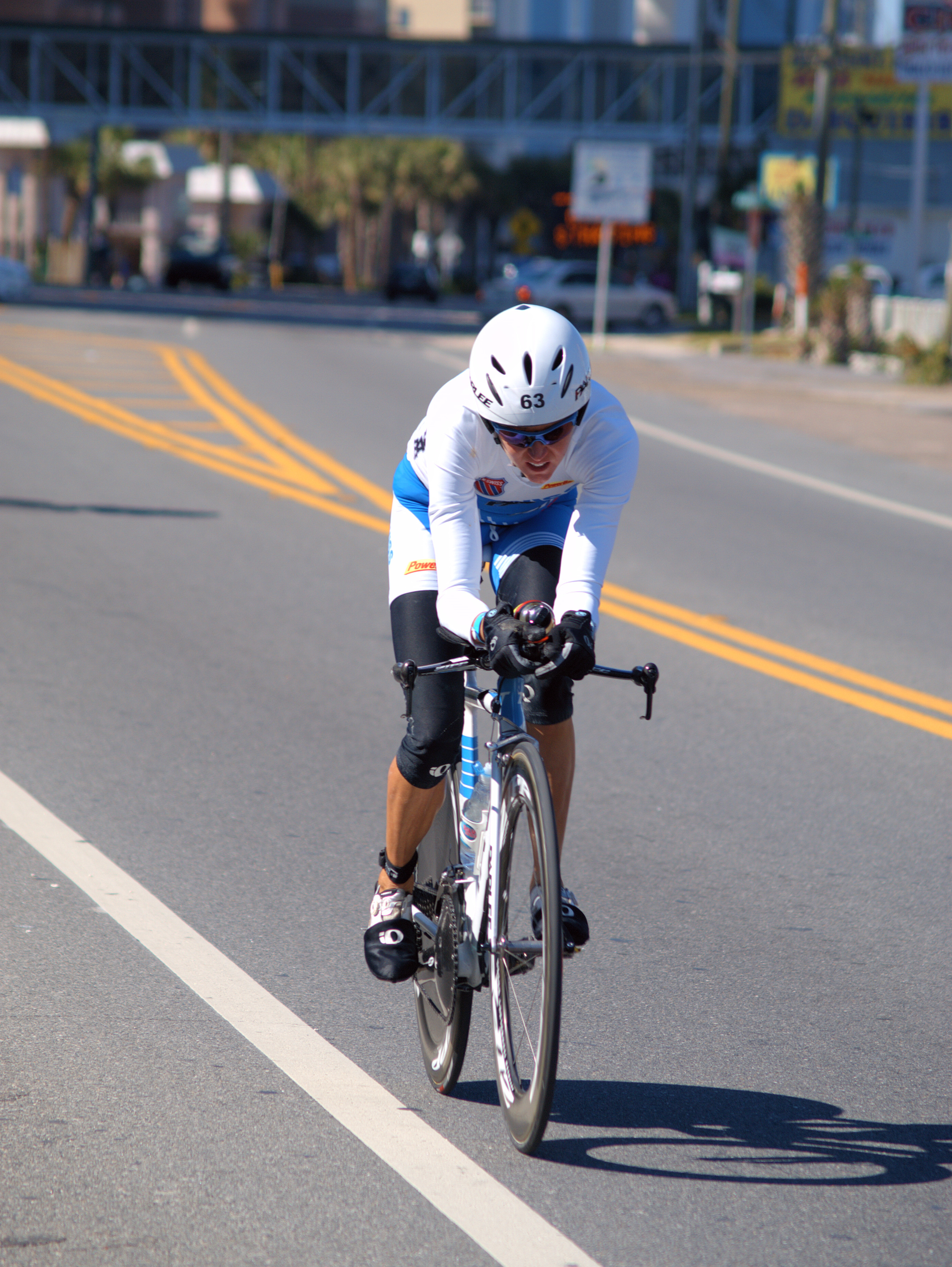 Kim Loeffler 3rd Female on bike at Ironman Florida 2010